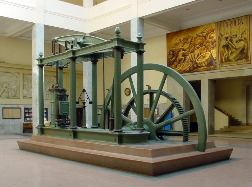 A beam engine of the Watt type, built by D. Napier and Son (London) in 1859. It was one of the first beam engines installed in Spain. It drove the coining presses of the Royal Spanish Mint until the end of the 19th century. In 1910 it was donated to the Higher Technical School of Industrial Engineering of Madrid (part of the UPM) and installed in its lobby.